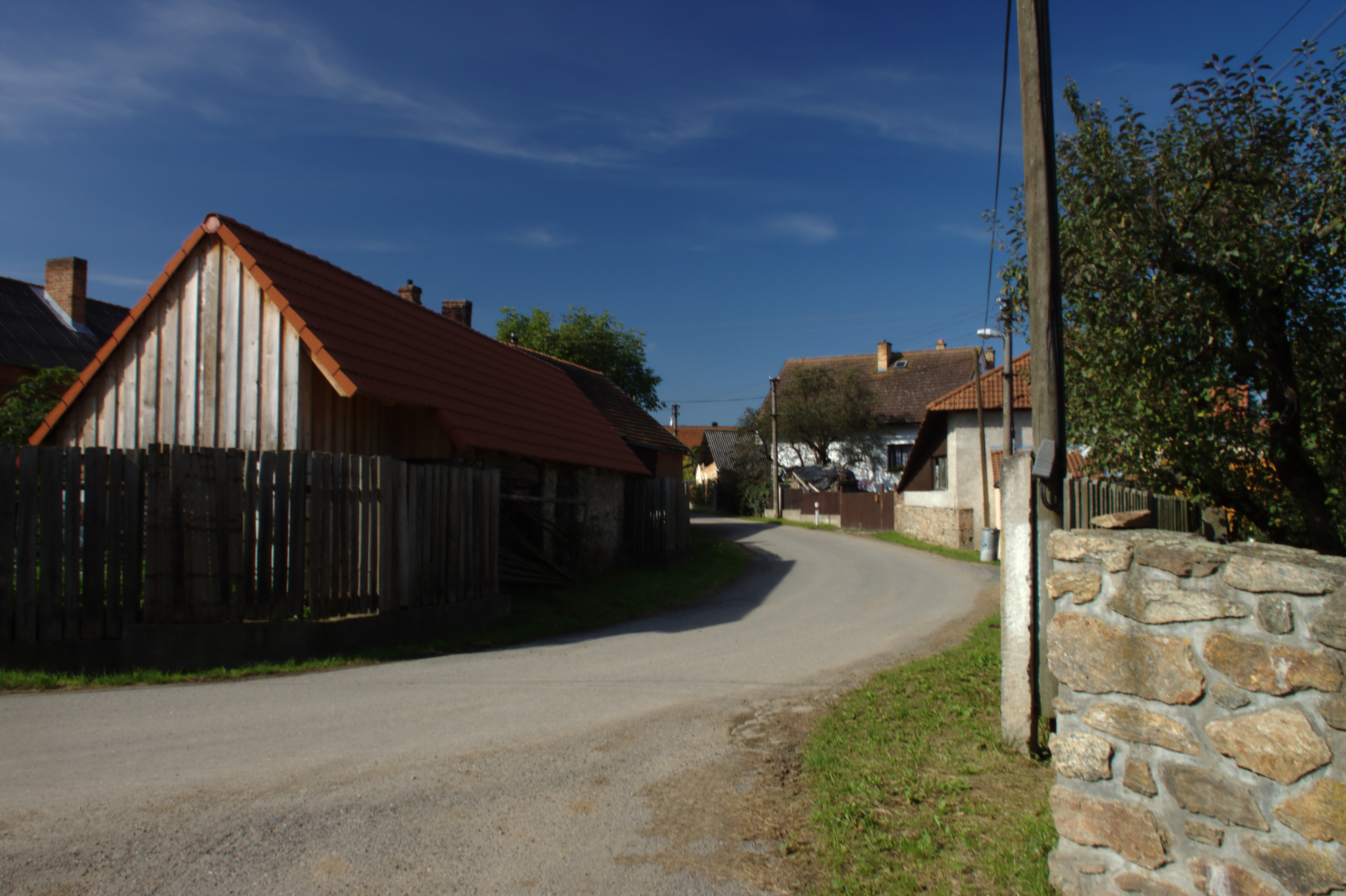 Main road in Soušice in Benešov District, Central Bohemia, CZ